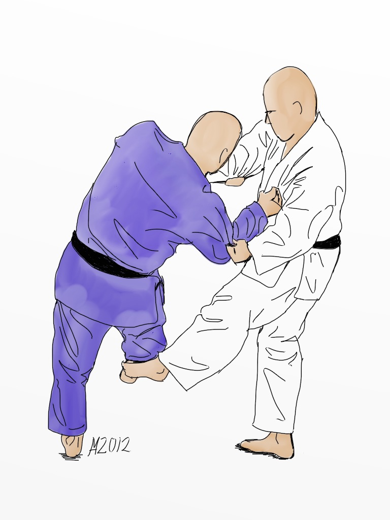 Illustration of the judo throw de-ashi-barai, or advancing-foot-sweep, where you sweep the opponents foot as he moves to put his weight on it.